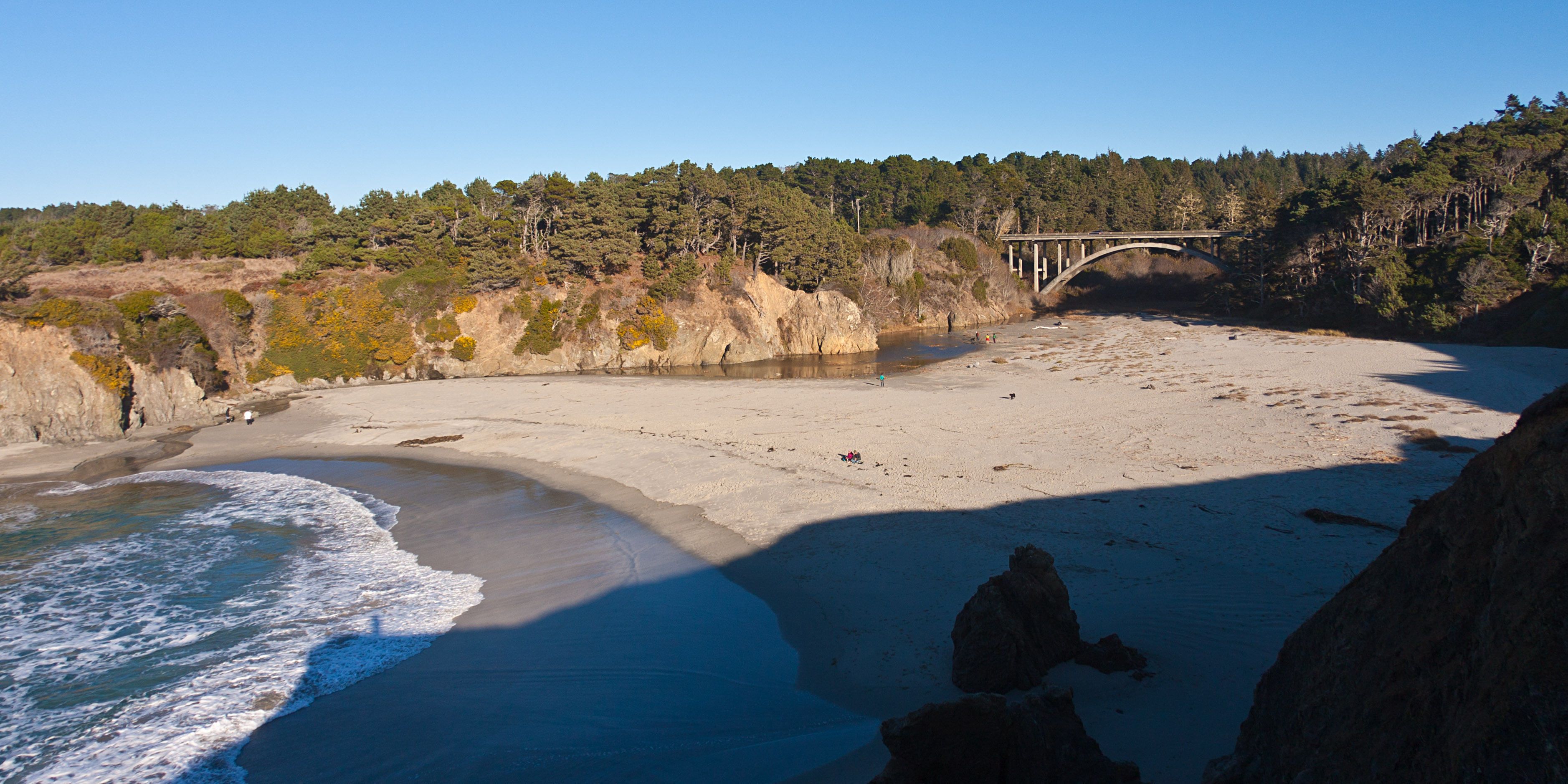 The beach at Jug Handle State Natural Reserve near Mendocino, California